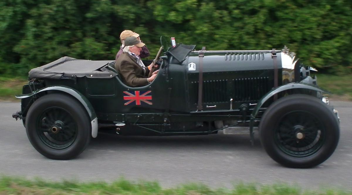 Bentley 4½ Litre Supercharged 1930 - Kop_Hill_2013 Chassis FS3623 Engine FS3624 Reg GN 1767 delivered July 1930 with 4-seater tourer body by Vanden Plasnow Ambler built Birkin replica on 9'9½" chassissource of information—Vintage Bentleys